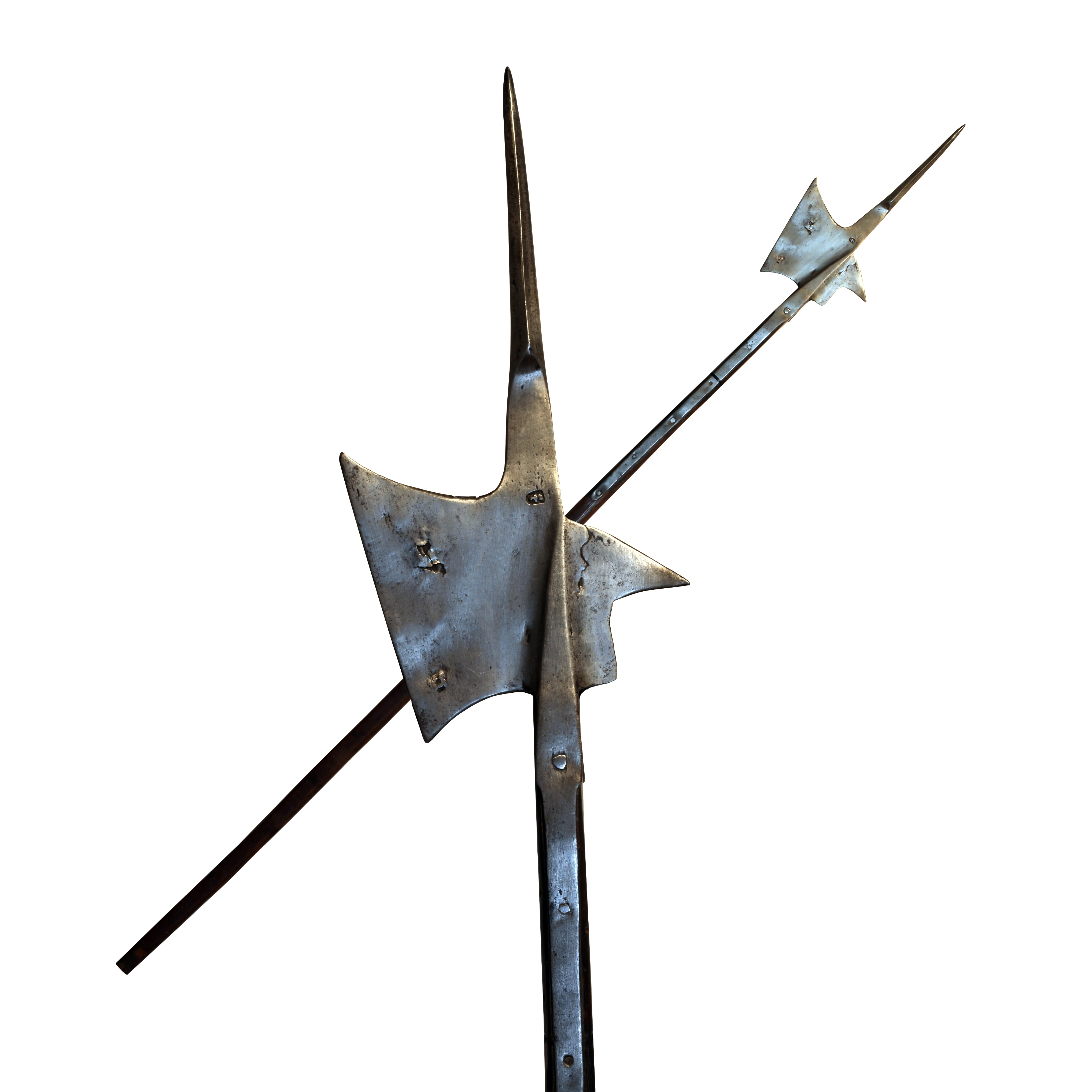 Swiss halberd ("Solothurn" style), early 16th century. On display at Morges military museum, accession number 176.